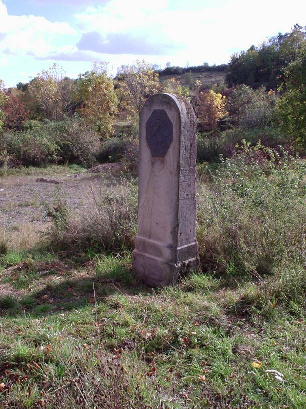 A boundary stone at the Bundesstrasse B7, he showes a standing lion - the symbol for Hesse-Kassel.